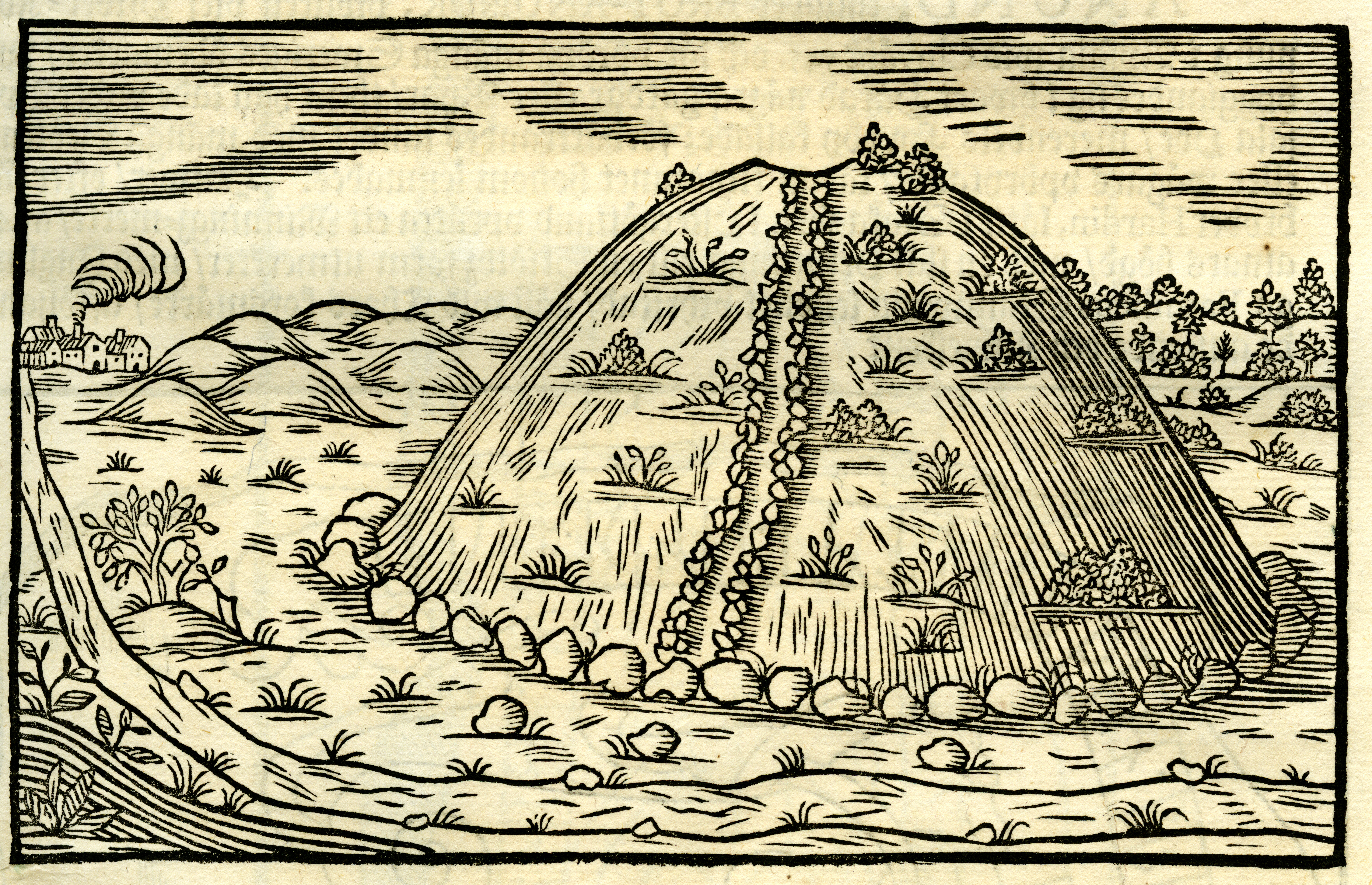 Woodcut depicting Ottarshögen (The Mound of Ohthere) (RAÄ No Vendel 1:1) in Vendel Parish, Örbyhus Hundred, Tierp Municipality, Uppsala County, Uppland, Sweden. The picture is from page 13 in Ättartal för Swea och Götha konungahus, efter trowärdiga Historier och Documenter (1725) by Johan Peringskiöld. Published by the son Johan Fredrik Peringskiöld efter the father's death. Printed in Stockholm 1725.